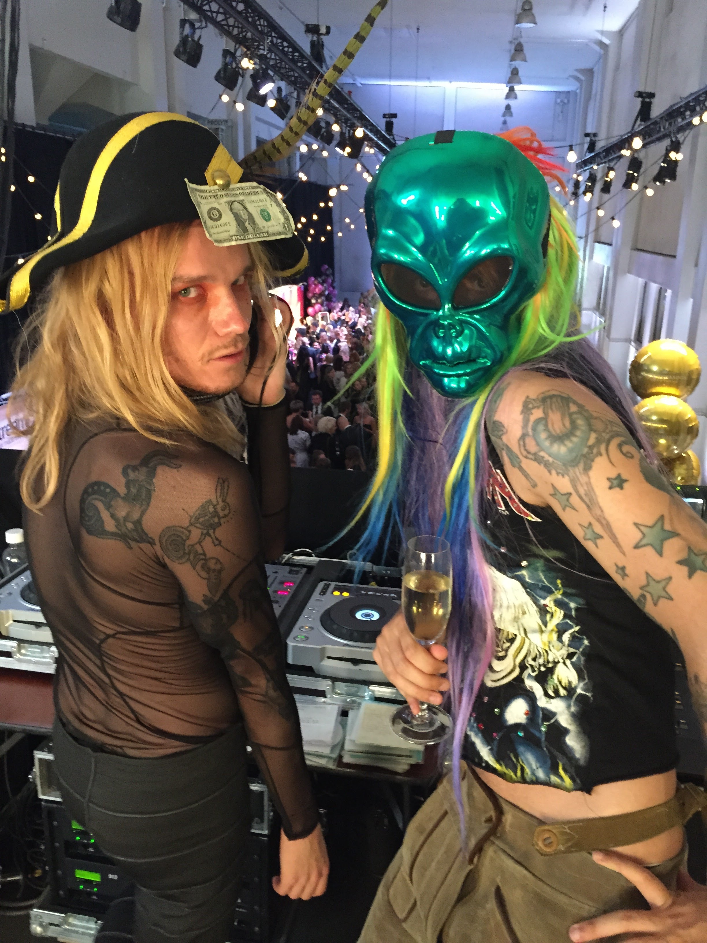 Club La Persé at Gloria Fashion Show 2015 at Pannuhalli, Helsinki, Finland